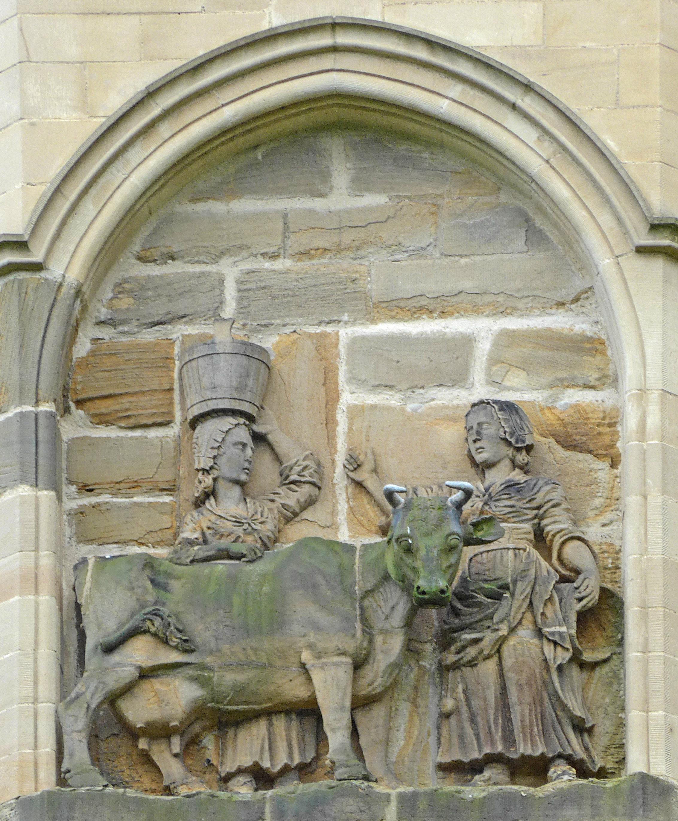 Stone relief in a blind arch on Durham Cathedral